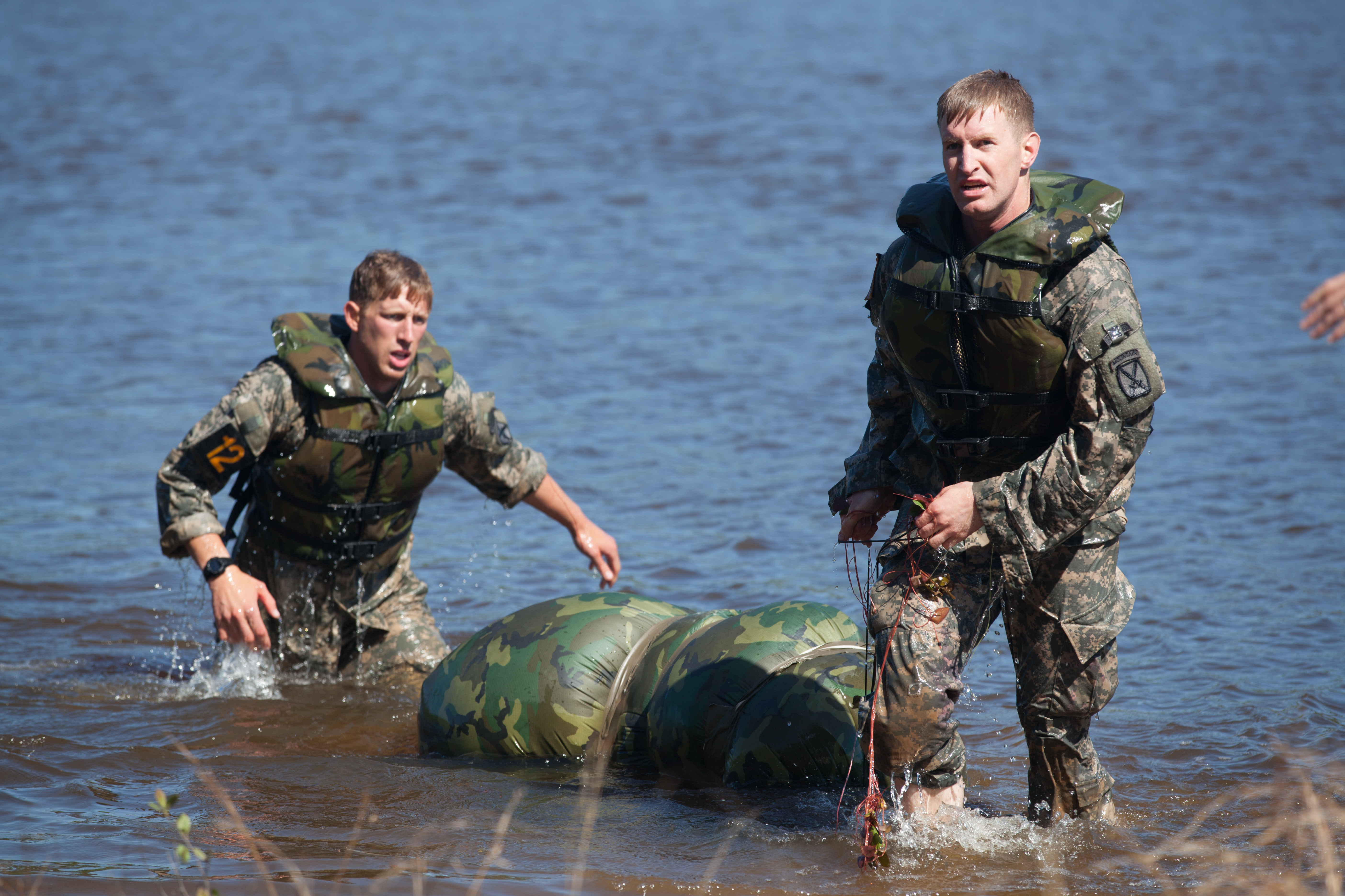 U.S. Army Capt. James McClare and 1st Lt. Anthony Day, assigned to the 10th Mountain Division, pull their poncho raft out of the water after conducting a Helocast into Victory Pond, Fort Benning, Ga., April 17, 2016. The 33rd annual Best Ranger Competition 2016 is a three-day event consisting of challenges to test competitor's physical, mental, and technical capabilities in honor of Lt. Gen. David E. Grange, Jr. (U.S. Army photo by Sgt. Austin Berner/Released) Unit: 982nd Combat Camera Company Airborne DVIDS Tags: Ga.; Rangers; Ranger; Fort Benning; U.S. Army; United States Army; Ft. Benning; 982nd Combat Camera Company (Airborne); Best Ranger Competition; 982nd Combat Camera Company; 982nd; 982nd ComCam; Best Ranger; Best Ranger Competition 2016